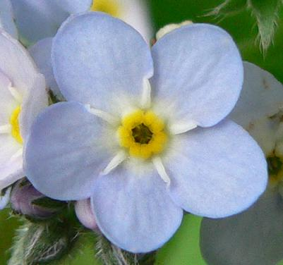 This picture depicts the head of a forget-me-not; the inner seed is yellow, and the outside petals are a gorgeous periwinkle blue. The forget-me-not is most certainly one of the most beautiful flowers around, and its story is both moving and tragic. Taken at Tilden Park in Berkeley, CA Commons:Category:Boraginaceae Commons:Category:Myosotis